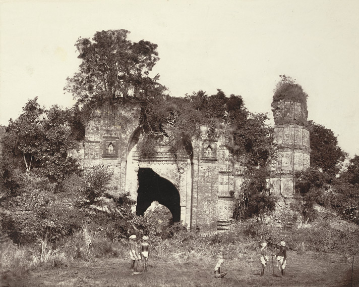 Dakhil Darwaza, an impressive gateway built in the year 1425 A.D. It is an important Muslim monument in anciant India.